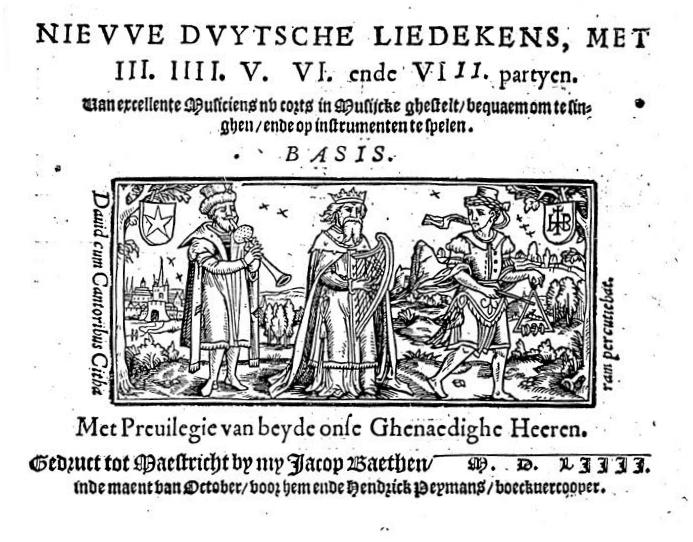 Title page of the Niewe Duytsche Liedekens, met III. IIII. V. VI. ende VIII. partyen (New Dutch songs in 3, 4, 5, 6 and 8 parts) (also known as the Maastricht Songbook), printed and published by Jacob Bathen in Maastricht in 1554